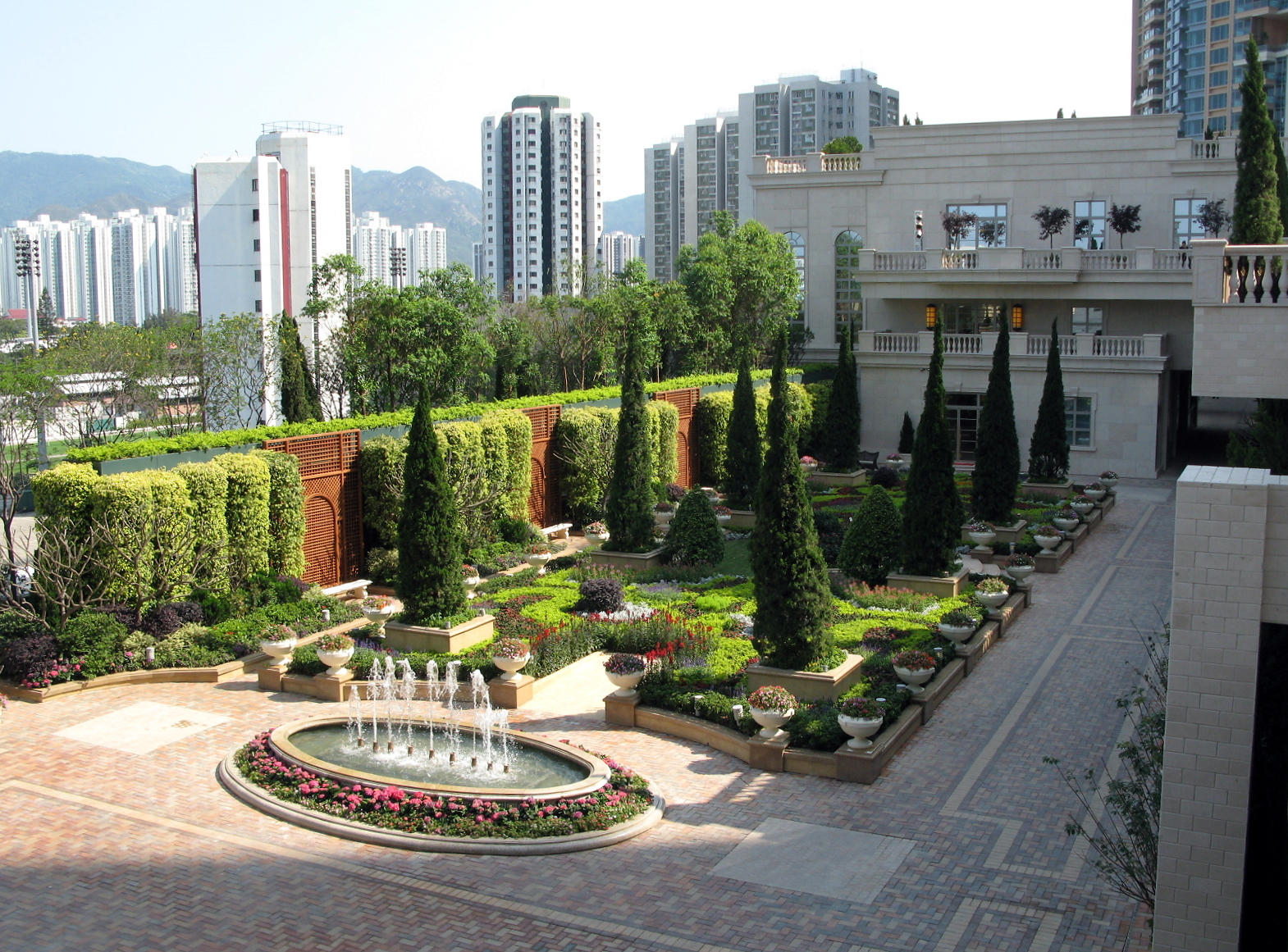 HK The Parazzo Poets Corner 御龍山